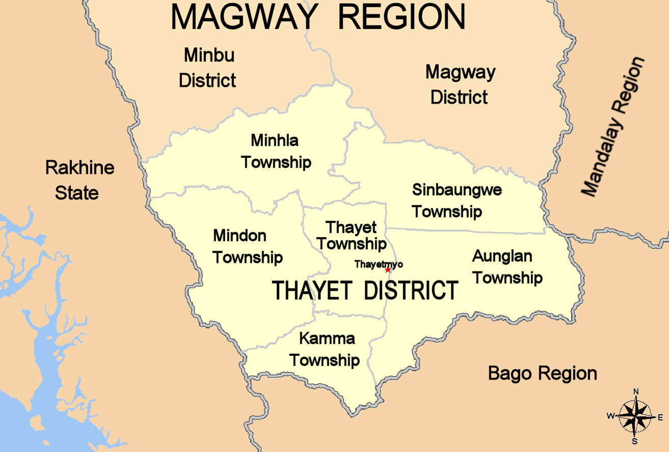 Map of Thayet District of Mayway (Magwe) Region, Burma (Mynamar), showing internal townships, capital Thayetmyo, adjacent districts and regions/states, based upon data from Myanmar Information Management Unit (MIMU) for Magway Division.